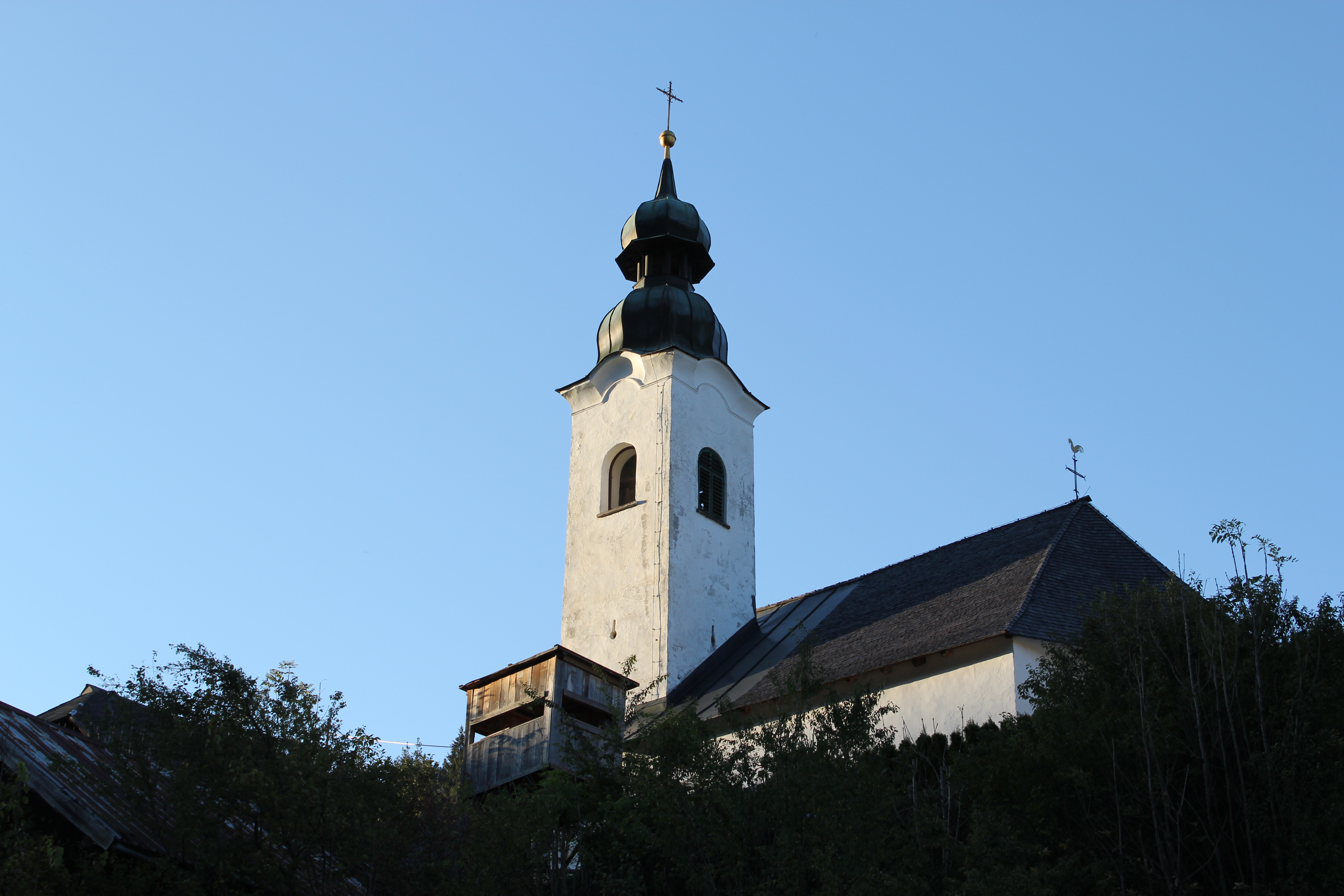 Church of Dellach in the community of Hermagor